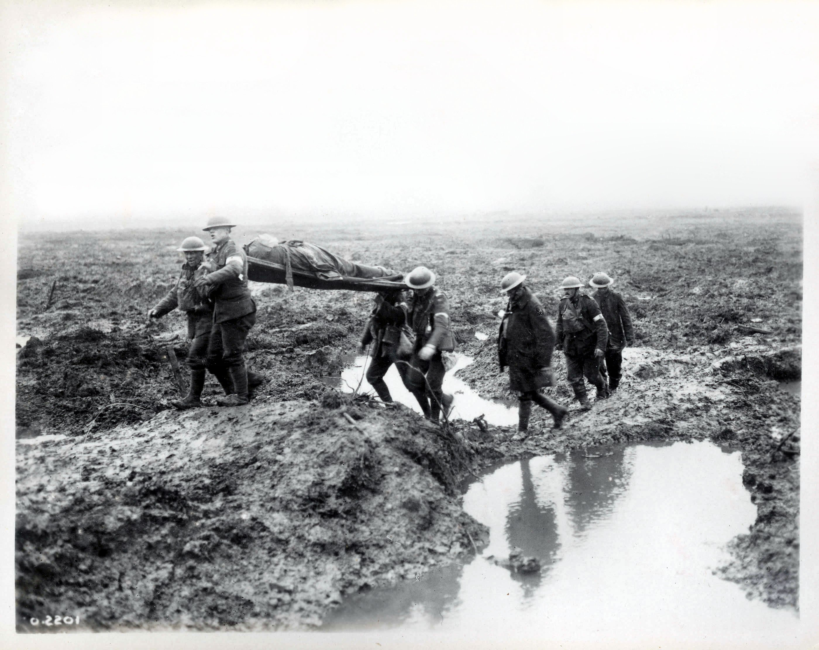 Wounded Canadians on way to aid-post during the Battle of Passchendaele